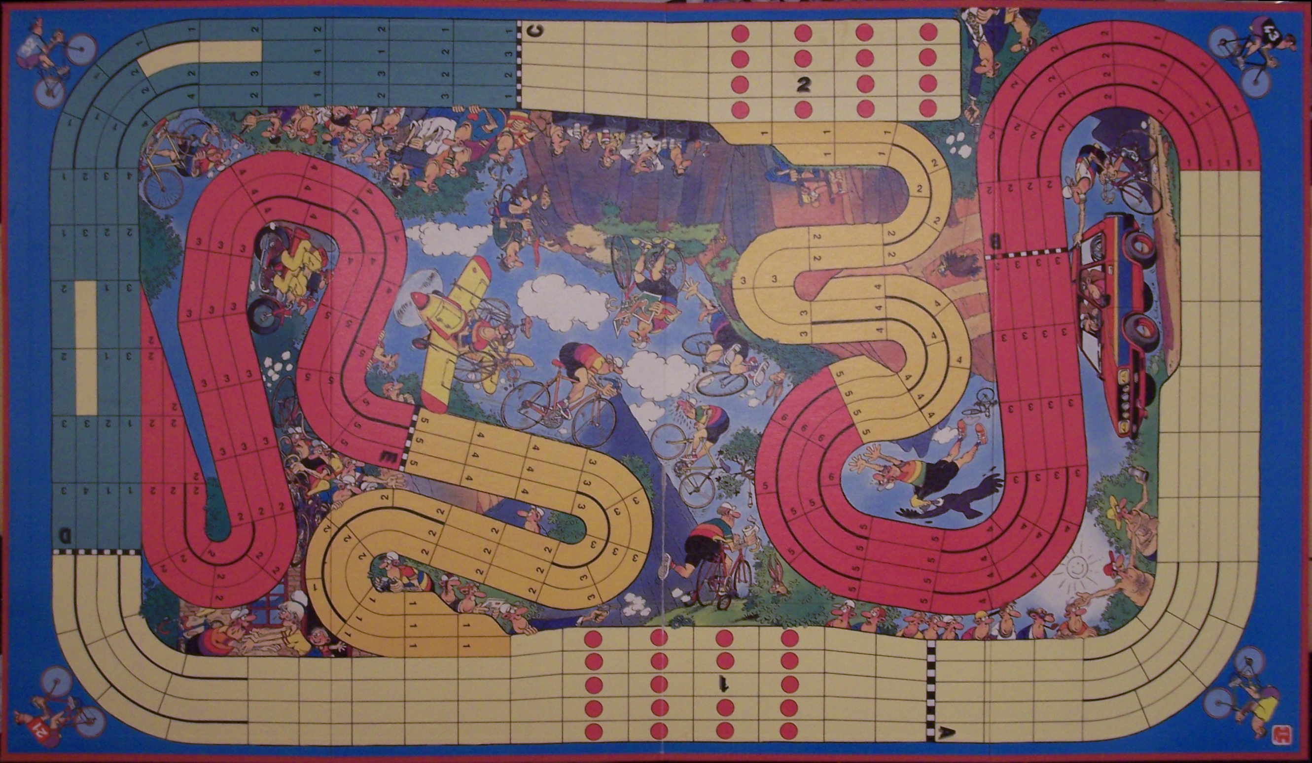 German Board game "Um Reifenbreite"